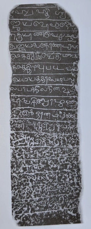 Mahakirindegama pillar inscription of Jayabahu I